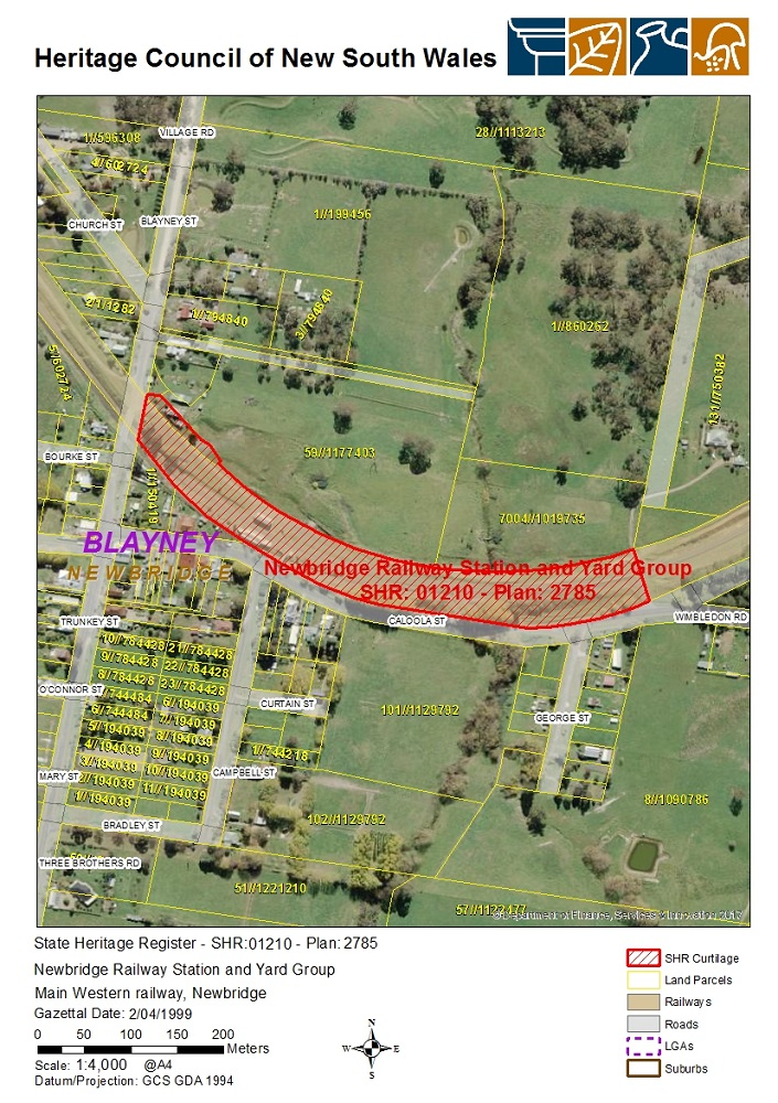 Newbridge railway station, New South Wales: SHR Plan 2785